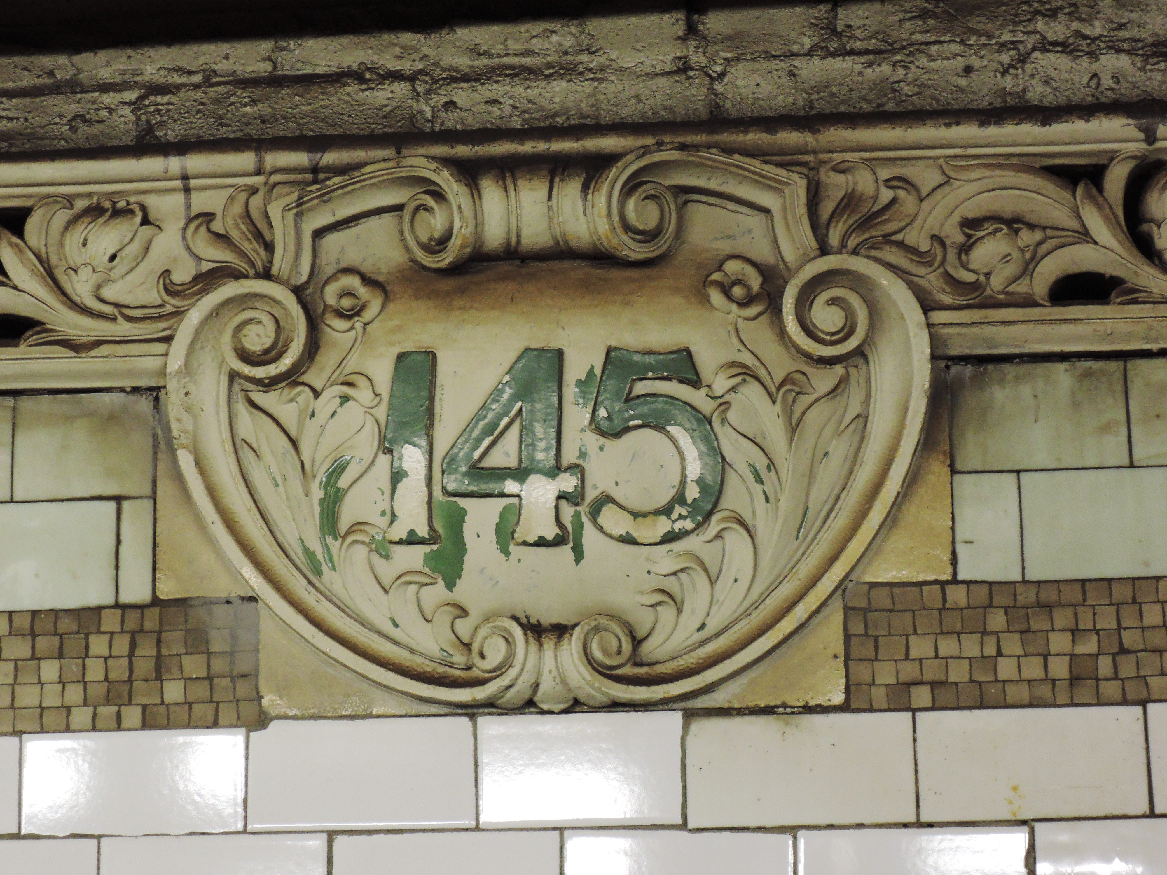 Station number.